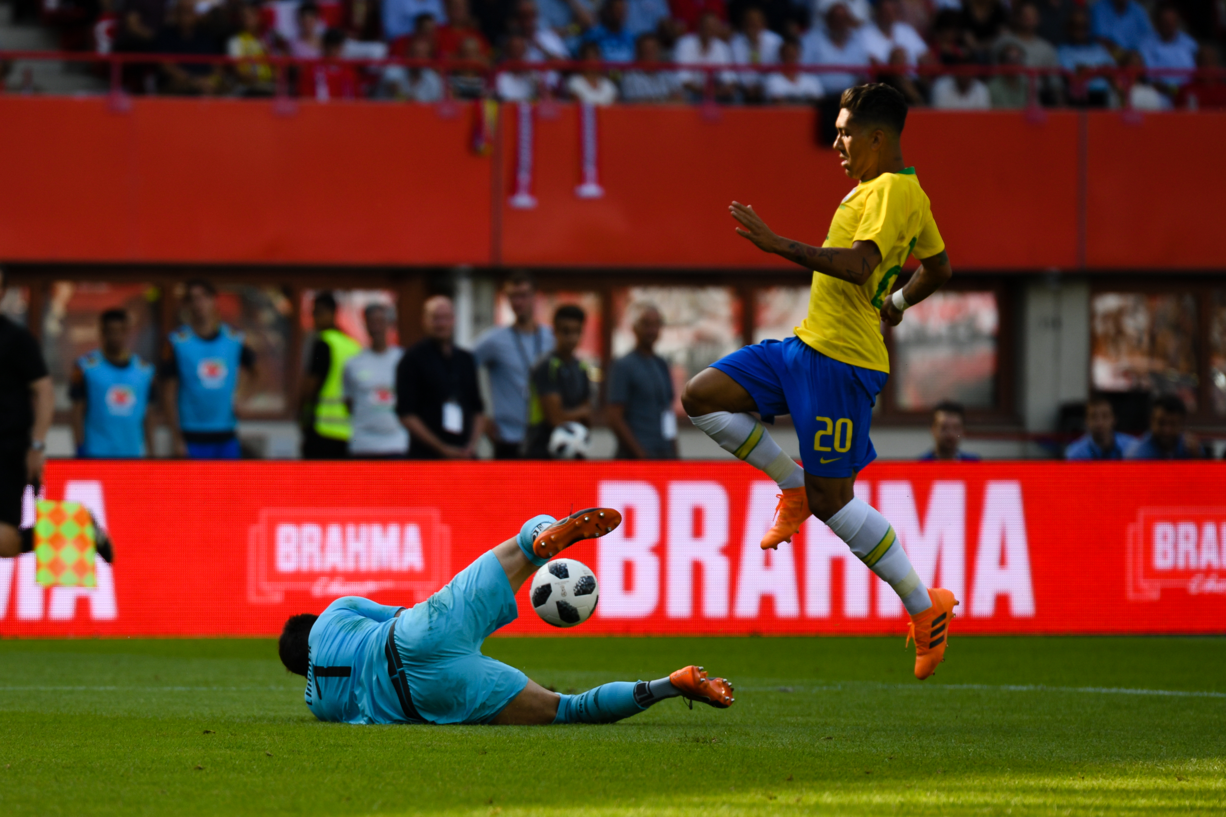 FIFA Friendly Match Austria vs. Brazil 2018/06/10 in Vienna/Ernst-Happel-Stadium. Picture shows Heinz Lindner (AUT), Roberto Firmino (BRA).